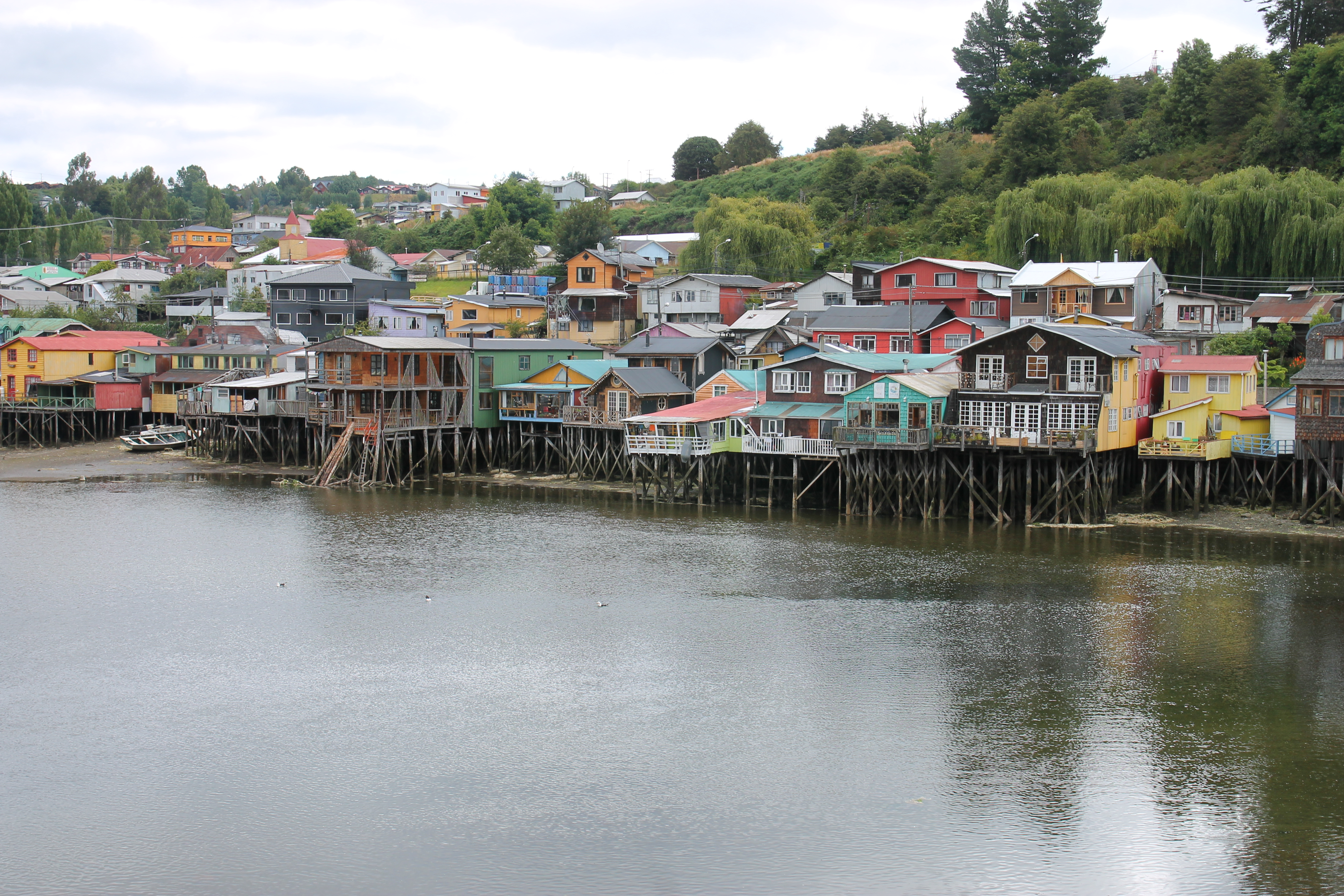 Stilt houses in Castro, Chiloé